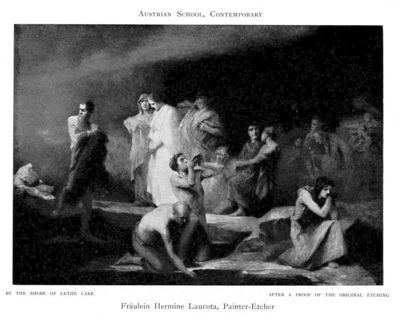 1905 print after page of Women painters of the world, from the time of Caterina Vigri, 1413-1463, to Rosa Bonheur and the present day, by Walter Shaw Sparrow, The Art and Life Library, Hodder & Stoughton, 27 Paternoster Row, London